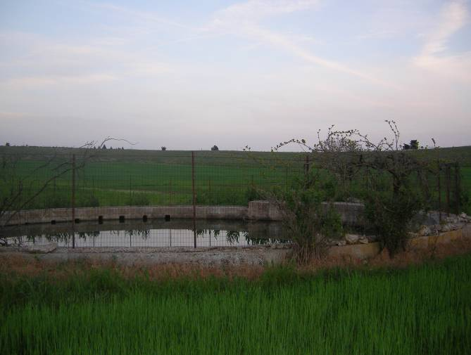 Gurio Lamanna - Artificial water basin located inside Gurio Lamanna sinkhole